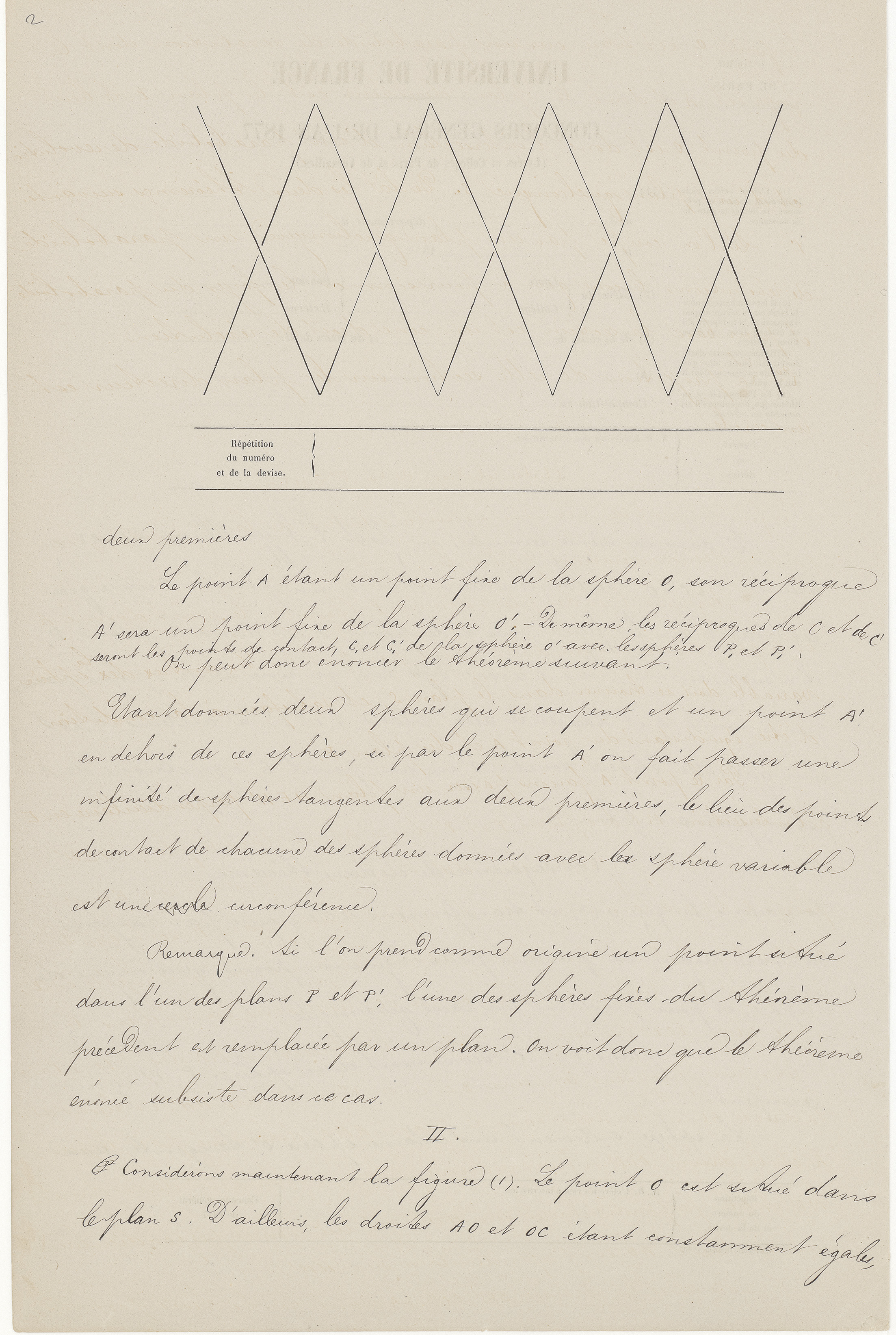 Copie de Henri Bergson au concours général de mathématiques. Épreuve de « mathématiques, cosmographie, mécanique » du concours général, 1877.